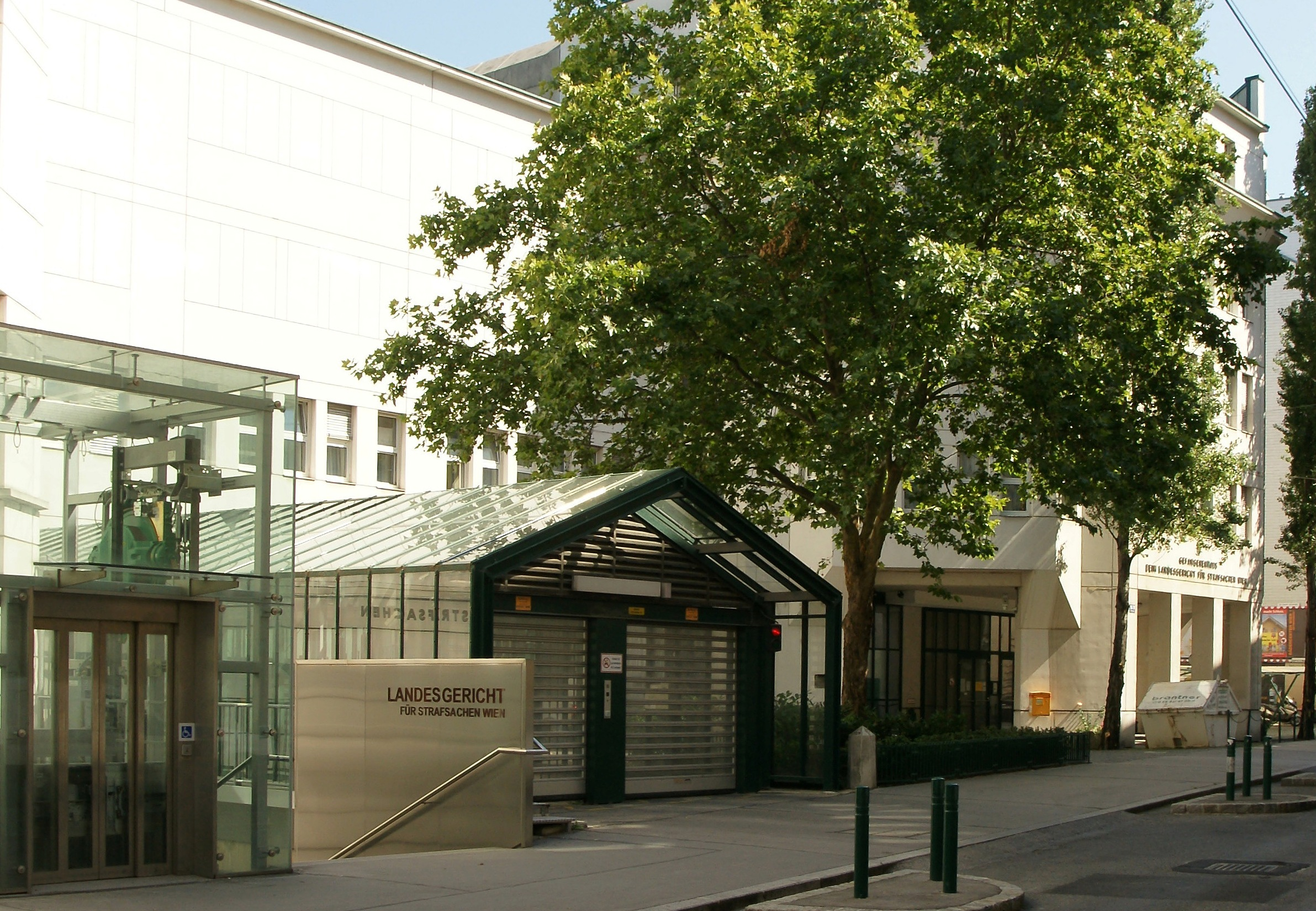 The entrance area of the Josefstadt penitentiary in Vienna.